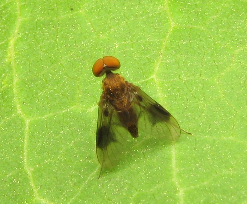 Snipe fly, Chrysopilus quadratus. Pennypack Restoration Trust, Montgomery County, Pennsylvania, USA.